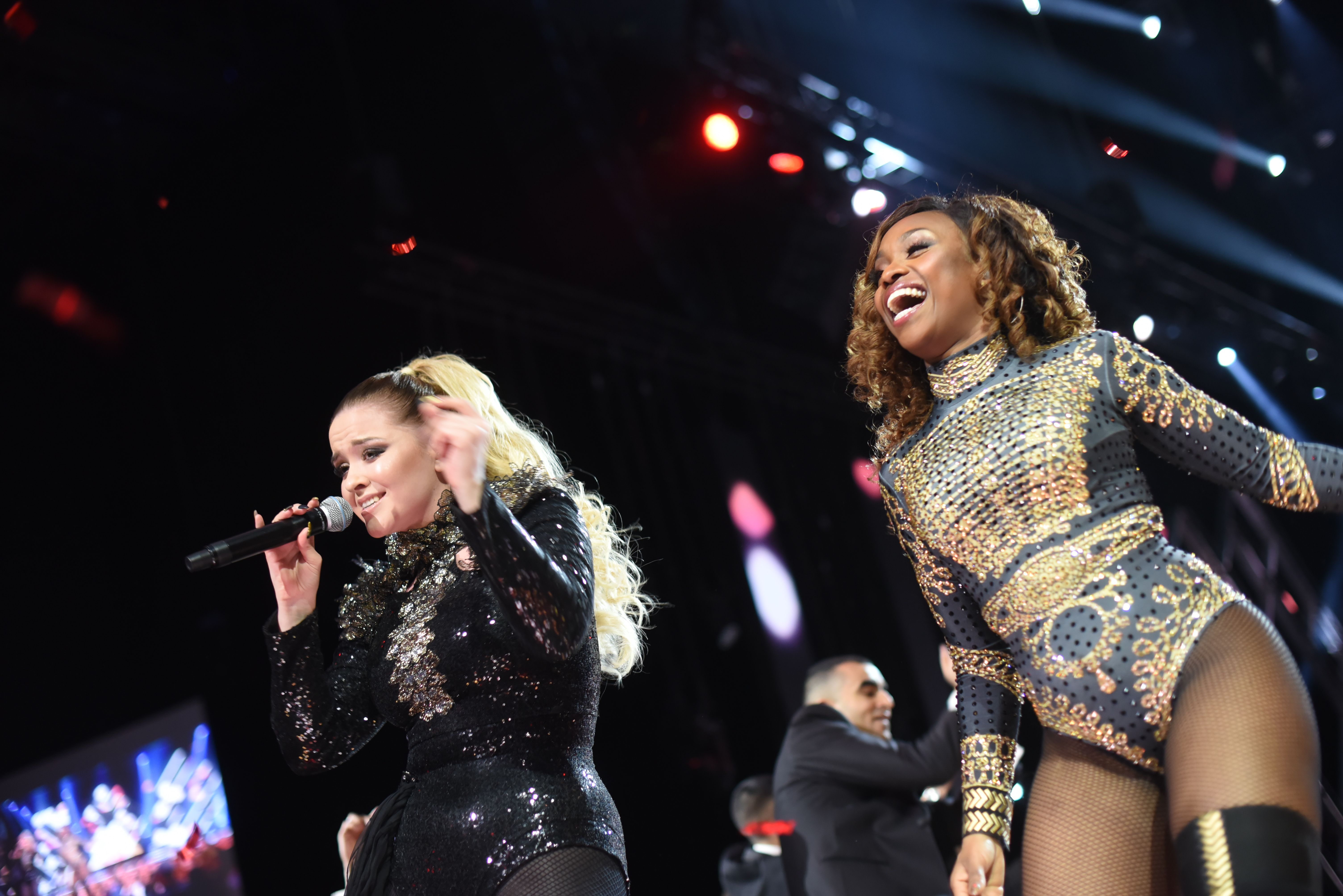 Melodi Grand Prix 2018